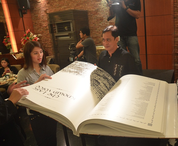 The image is about the launching of the giant book version of the epic poetry for peace.